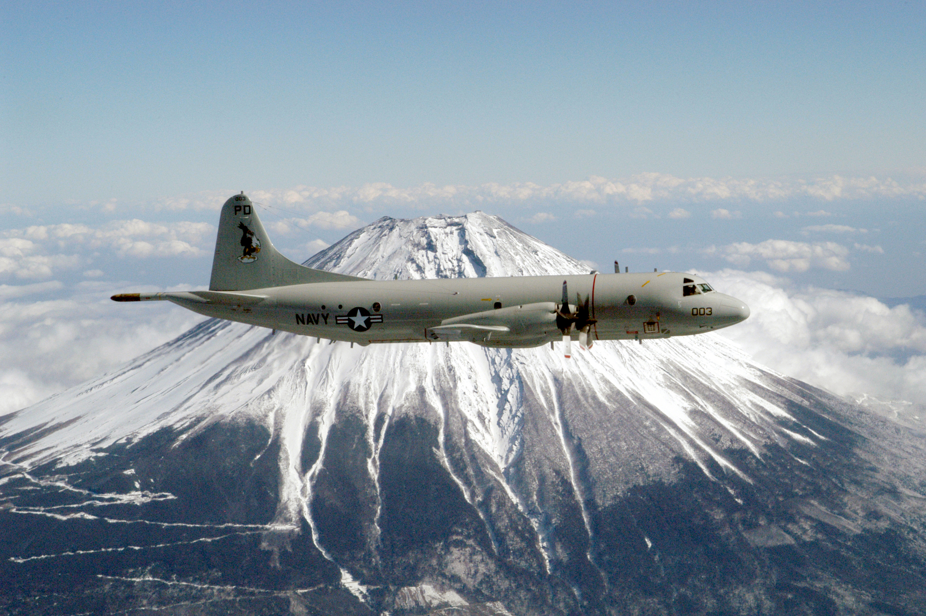 Misawa, Japan (Feb. 13, 2003) -- A P-3C “Orion” assigned to the “Golden Eagles” of Patrol Squadron Nine (VP-9) circles Mt. Fuji. VP-9 is forward deployed to Misawa, Japan. U.S. Navy photo by Photographer’s Mate 2nd Class Elizabeth L. Burke. (RELEASED)